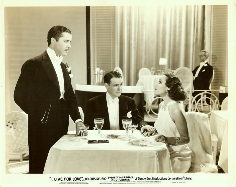 Promotion photo: Dolores del Rio with Don Alvarado and Everett Marshall (sitting) I Live for Love, 1935. Dolores del Rio wears an Orry-Kelly gown.